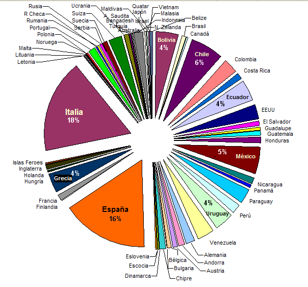 Cantidad de futbolistas jugando en el mundo. Number of Argentine football (soccer) players playing in other countries. Año 2007